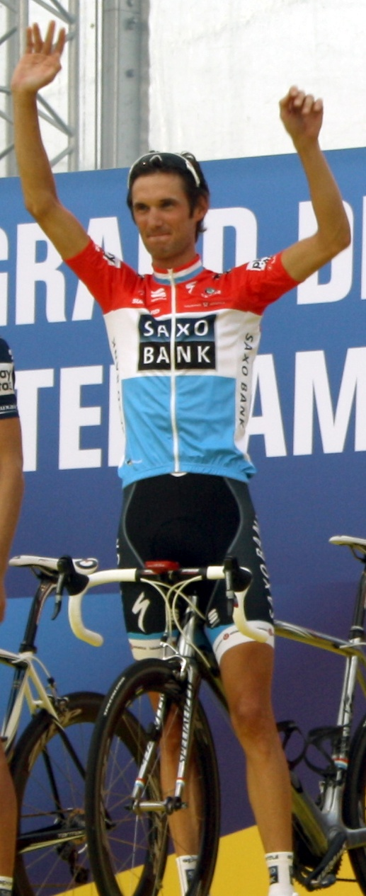 Fränk Schleck at the team presentation of the 2010 Tour de France in Rotterdam